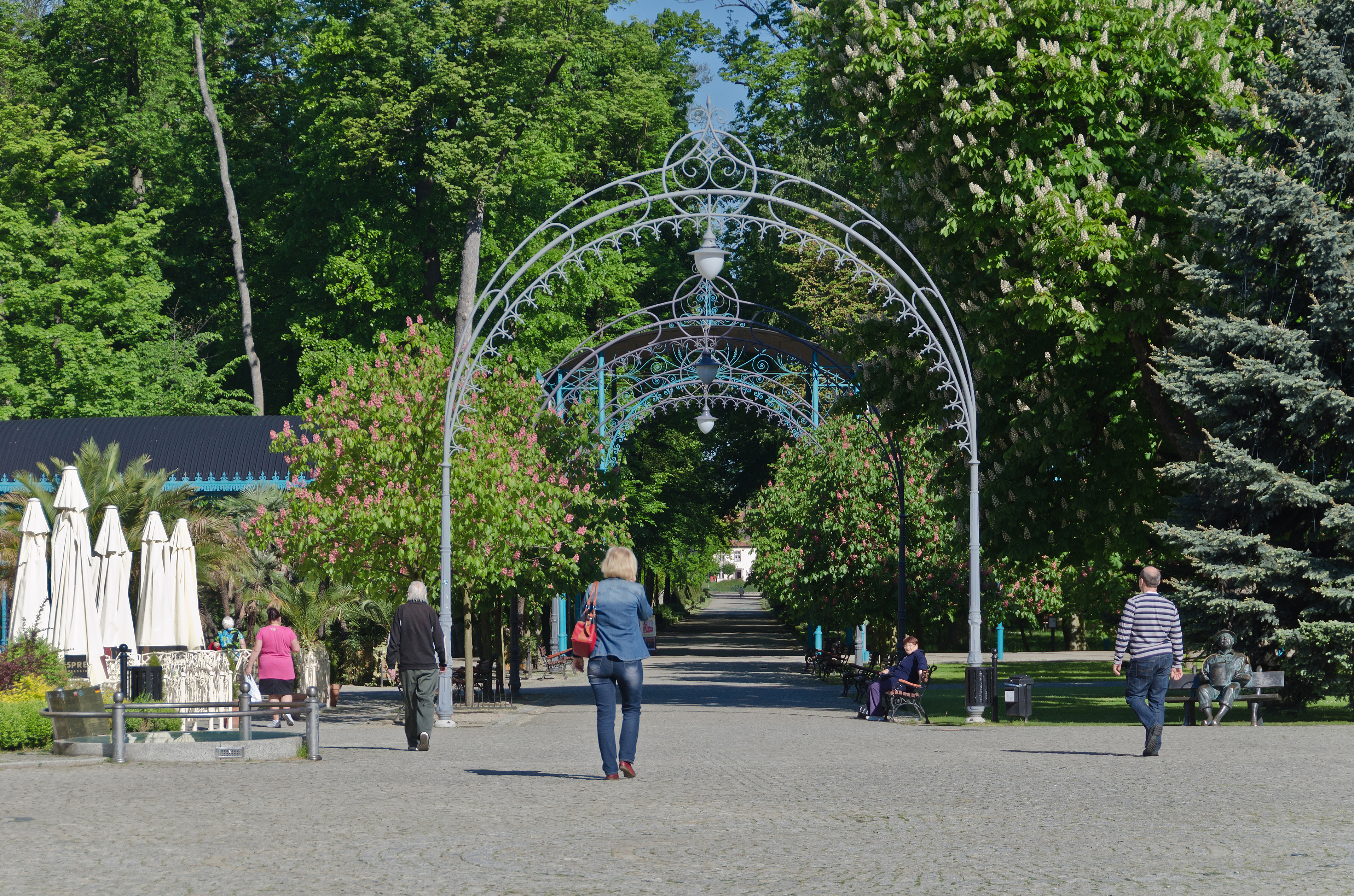 Spa park in Kudowa-Zdrój